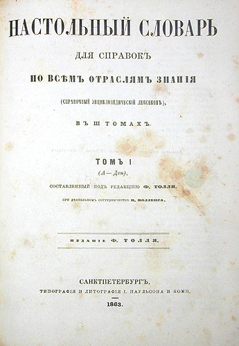 Nastolniy slovar dlya spravok po vsem otraslyam znaniya.